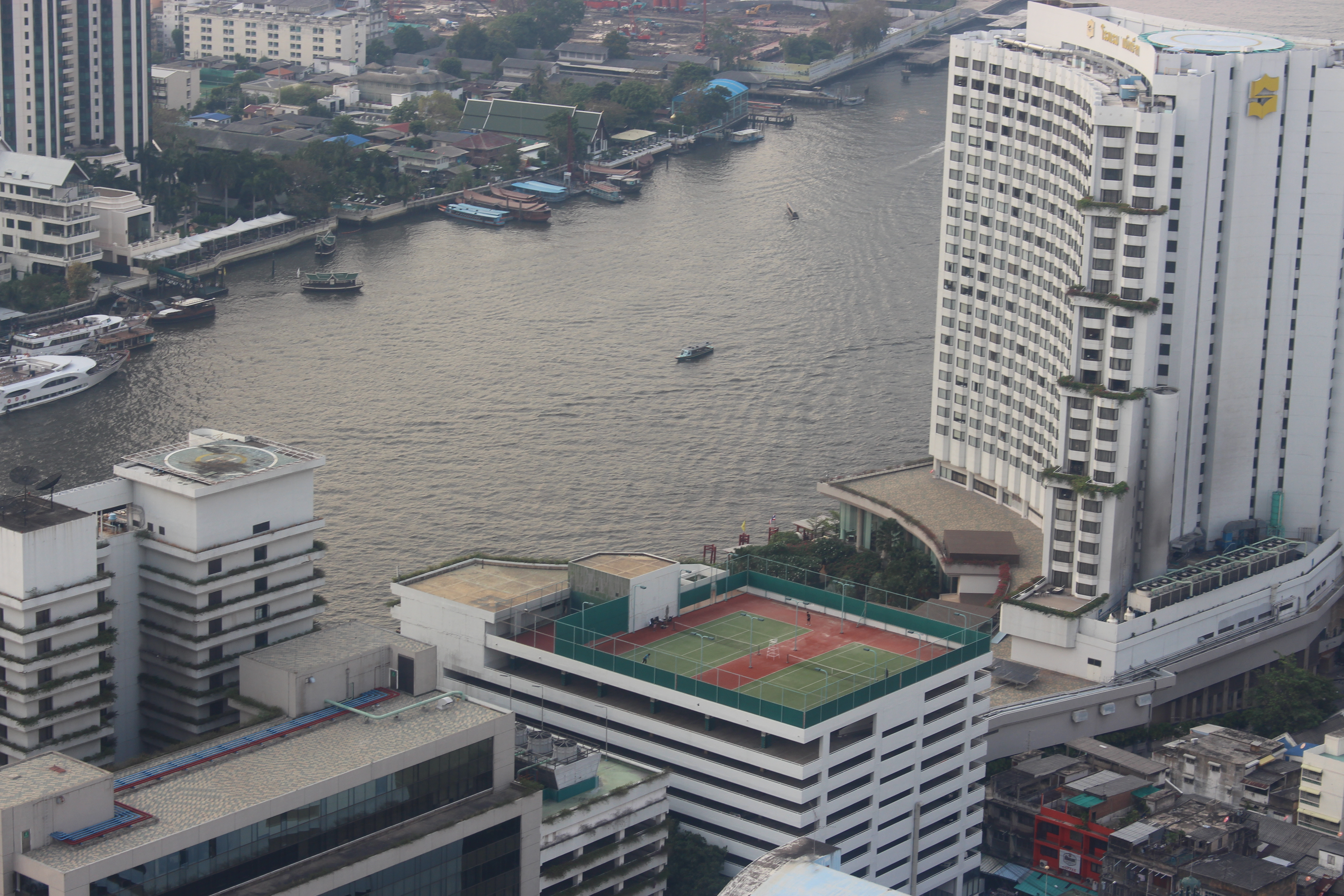 View from the Sathorn Unique Tower/Ghost Tower, Bangkong, Thailand.